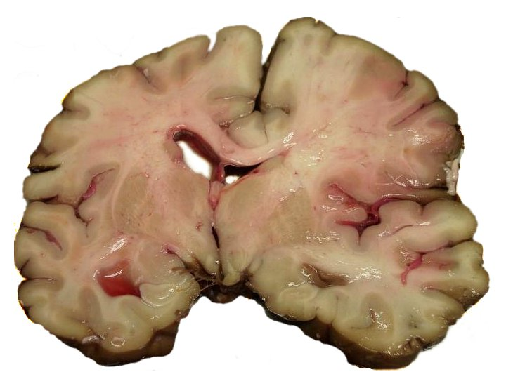 Photograph of acute middle cerebral artery (MCA) stroke. Image taken at autopsy on 10-24-2006 MODIFIED BACKGROUND